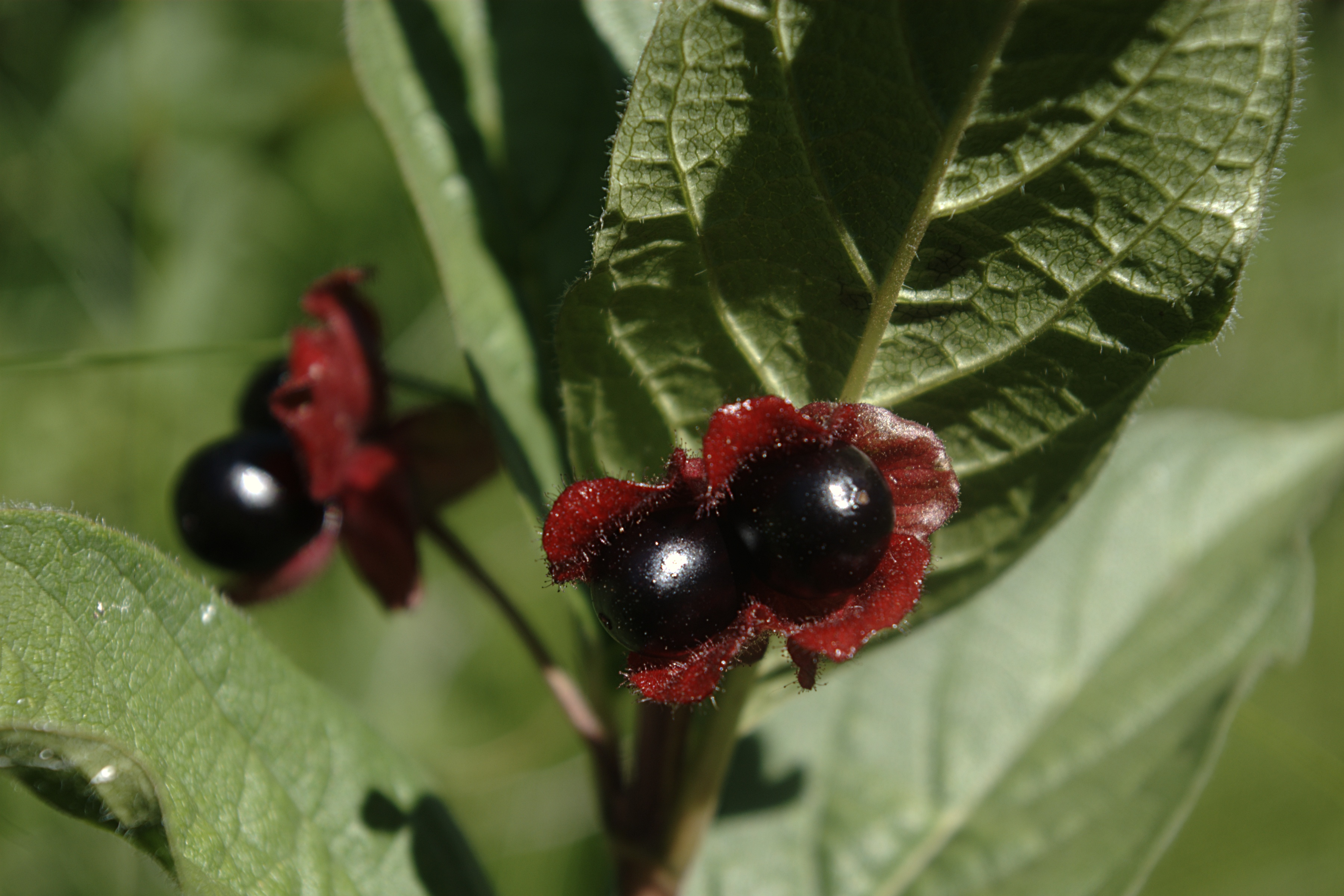 Fruit and leaves of Lonicera involucrata var. involucrata, bearberry honeysuckle or twinberry. Santa Fe Ski Basin, Santa Fe National Forest, New Mexico.